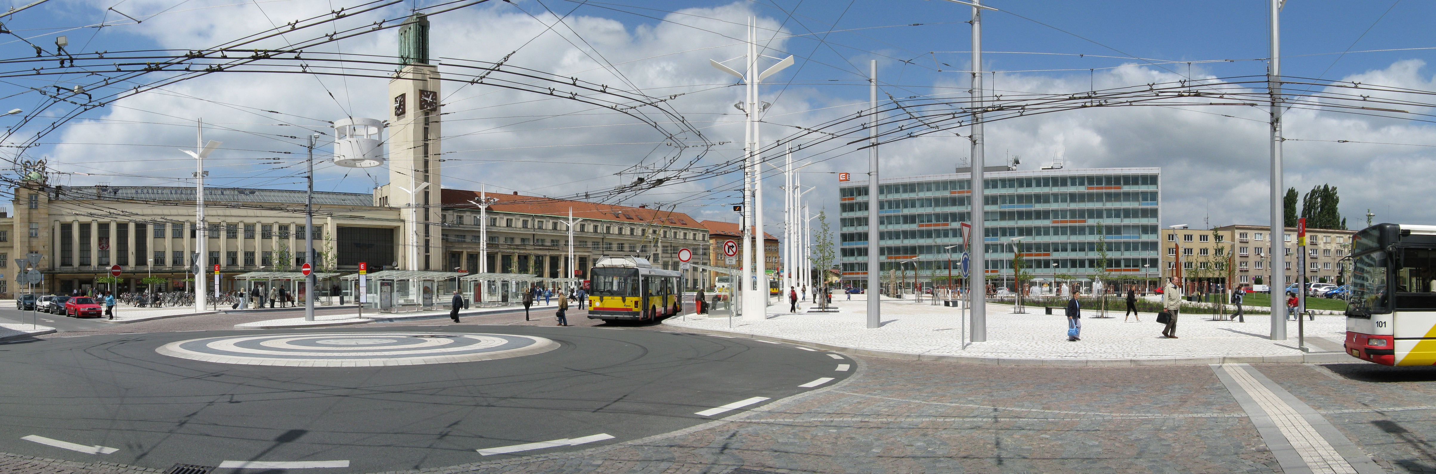 Panorama of main railway station and Rieger square.